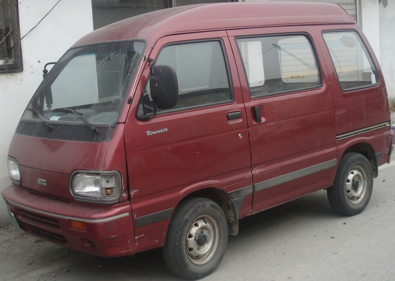 Asia Motors Towner